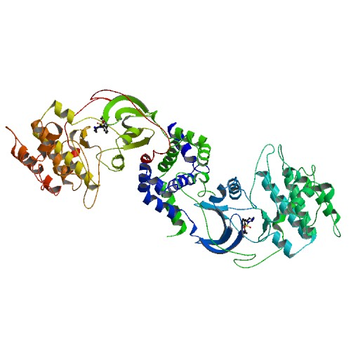 CRYSTAL STRUCTURE OF ROCK I BOUND TO H-1152P A DI-METHYLATED VARIANT OF FASUDIL